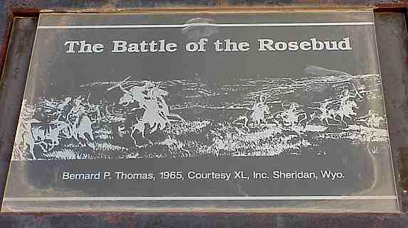 Rosebud Battleground sign, 2003